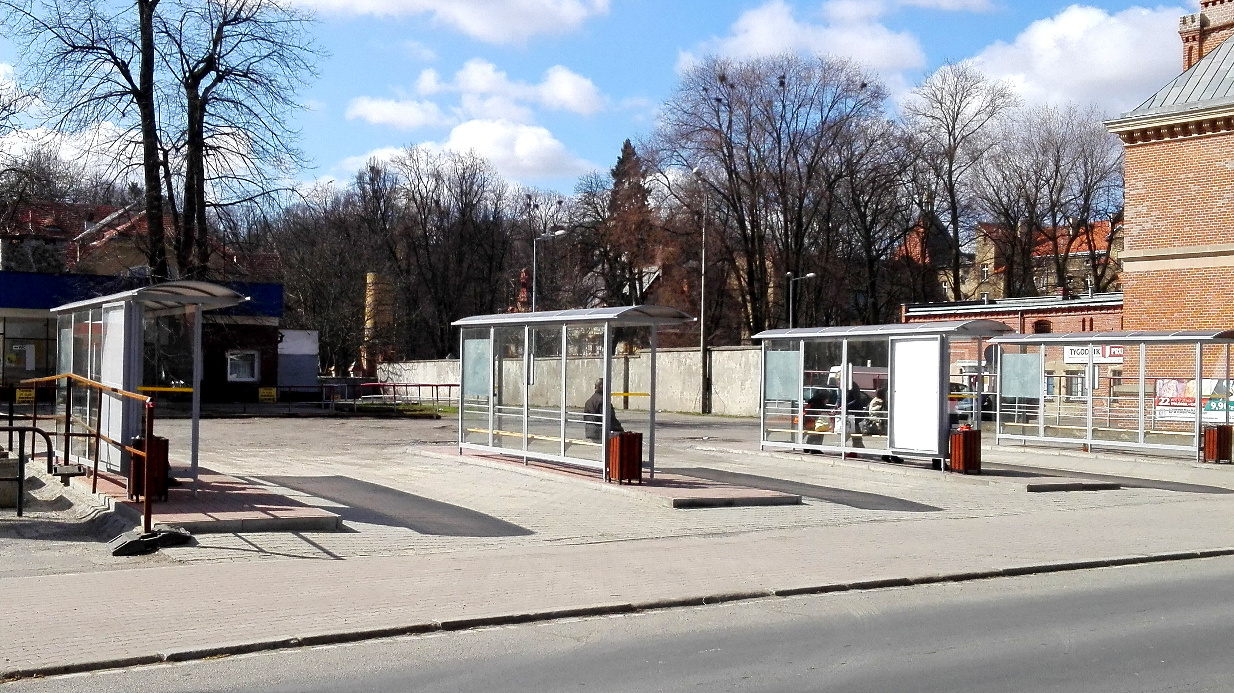 Bus station in Prudnik